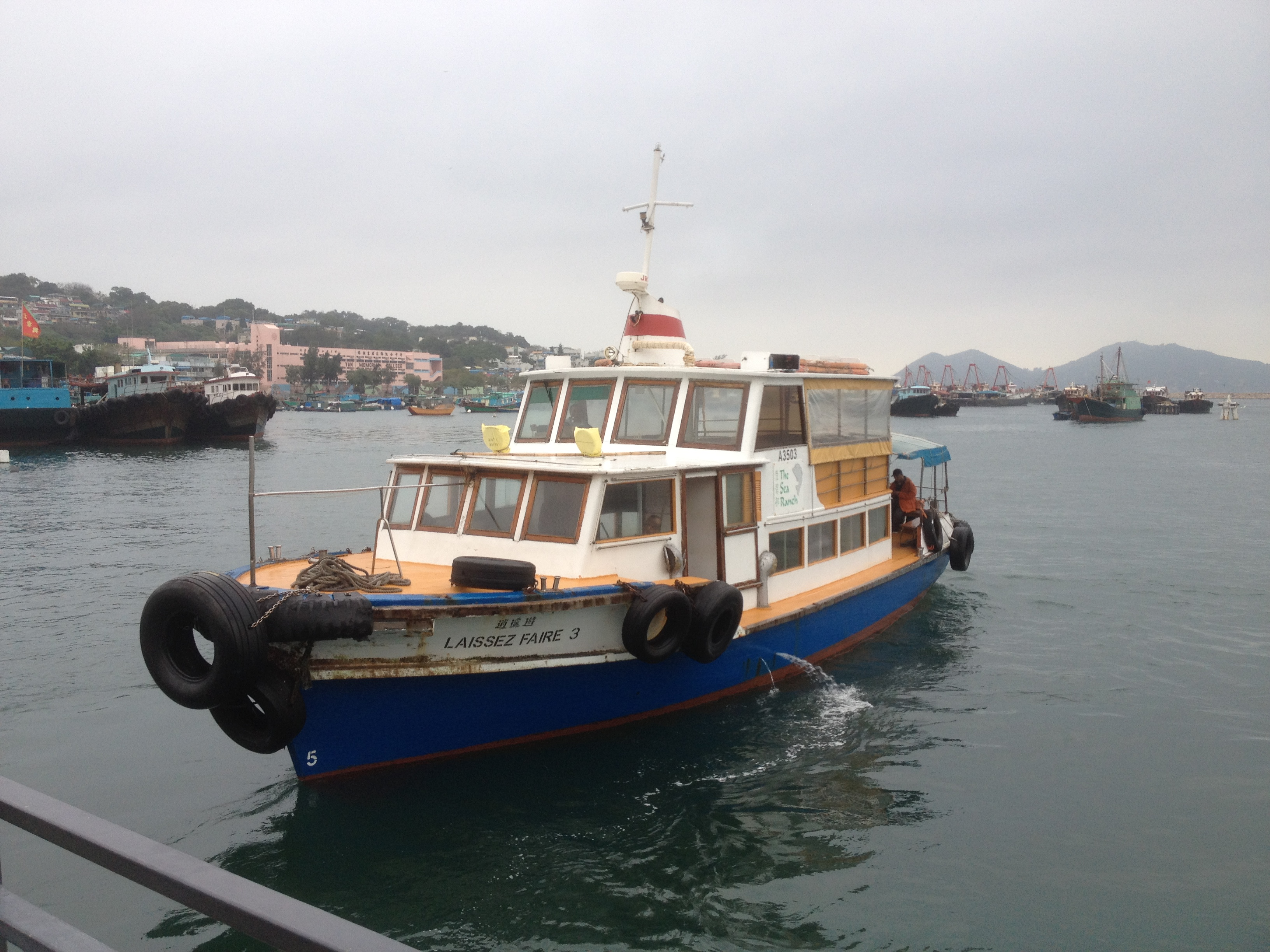 This photo is taken in Cheung Chau.